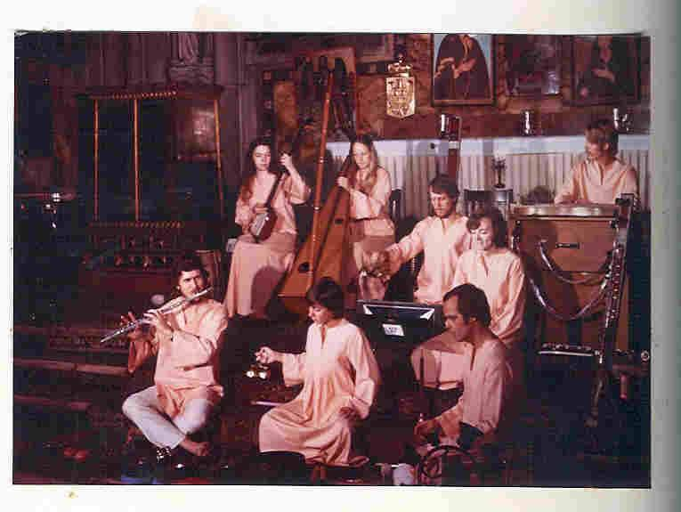 The Trees Group, performing "The Christ Tree".